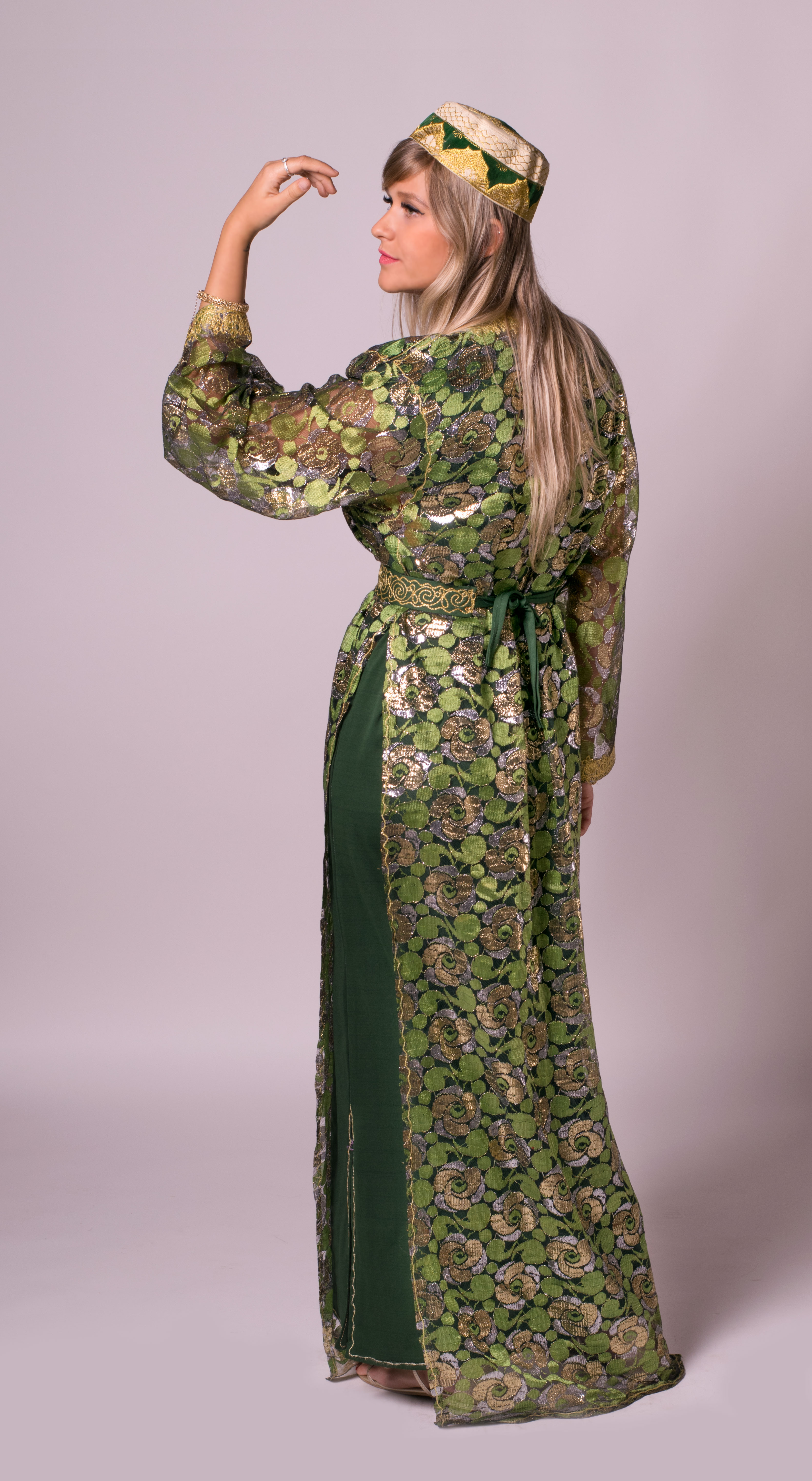 Traditional Morocan Silk Kaftan Green color On woman model - back